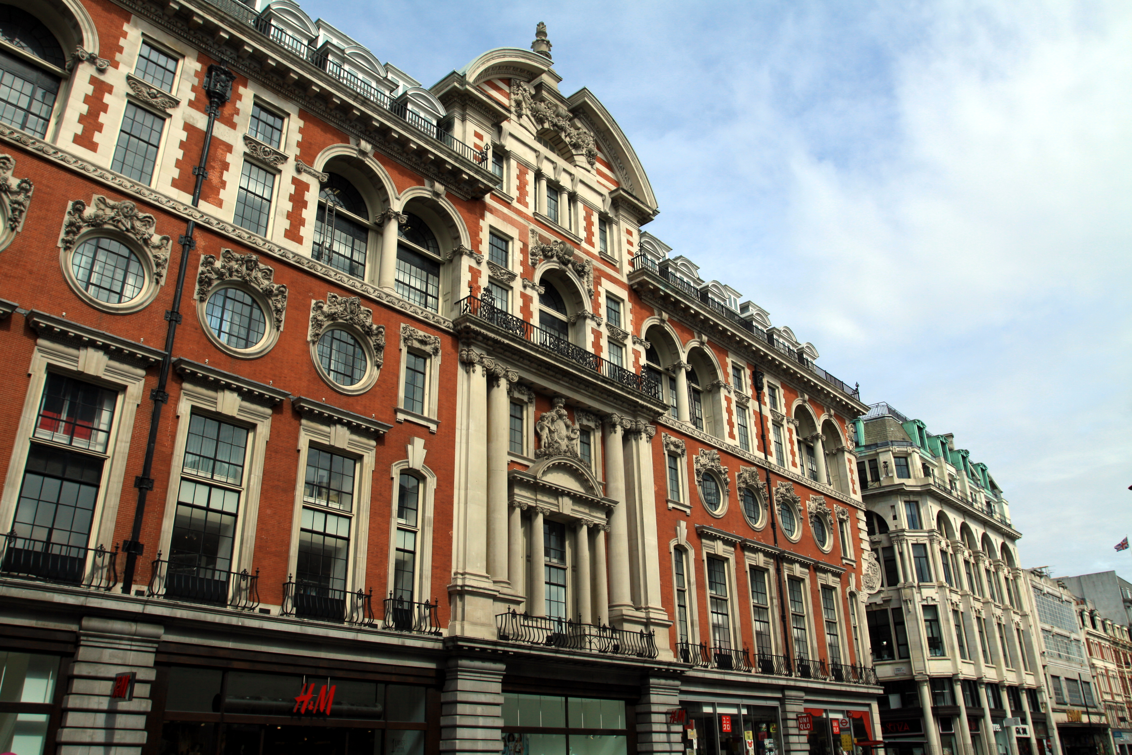 Building on Oxford Street in the City of Westminster, London, Great Britain. The making of this file was supported by Wikimedia UK.